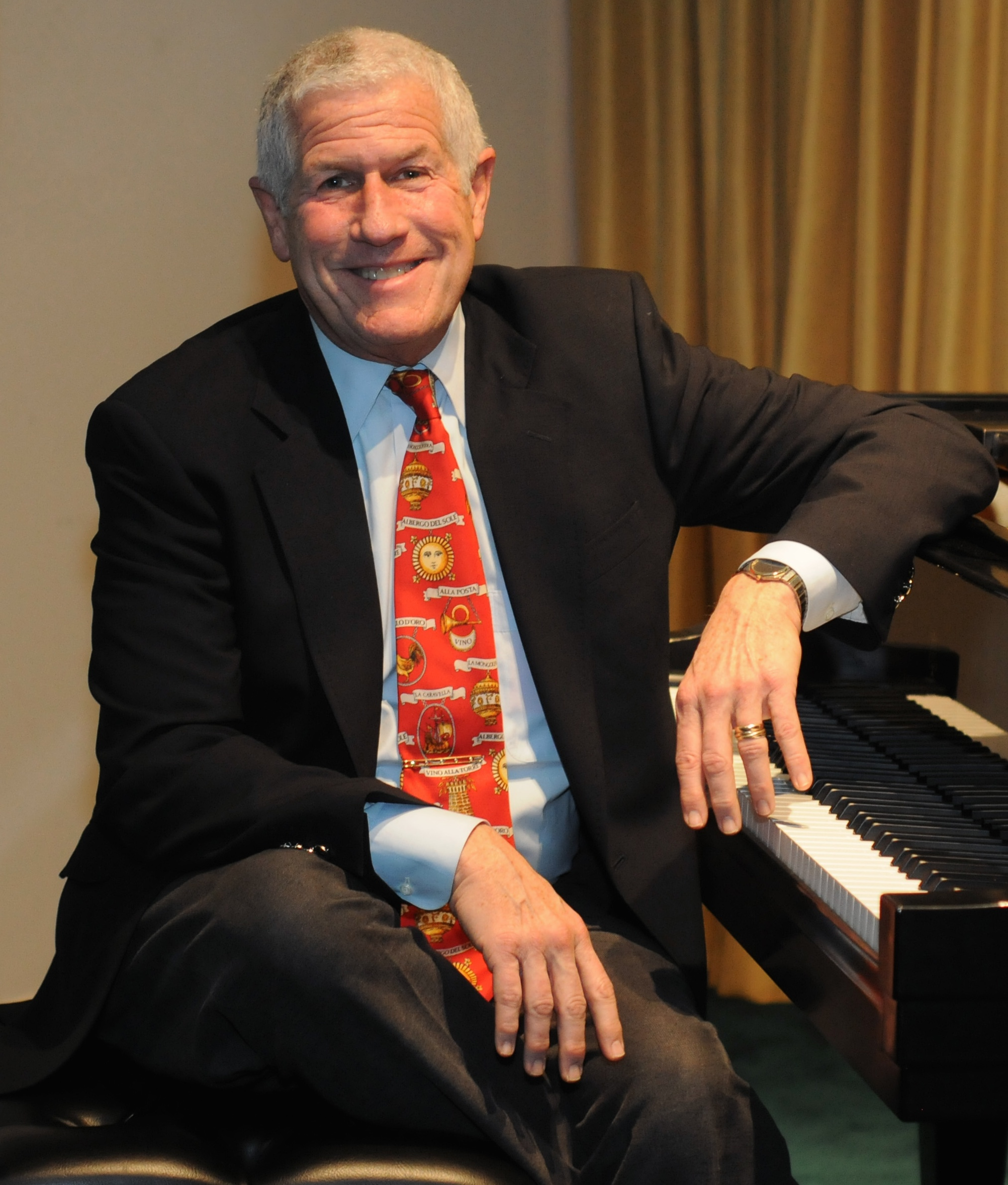 Andy Kahn at Steinway piano